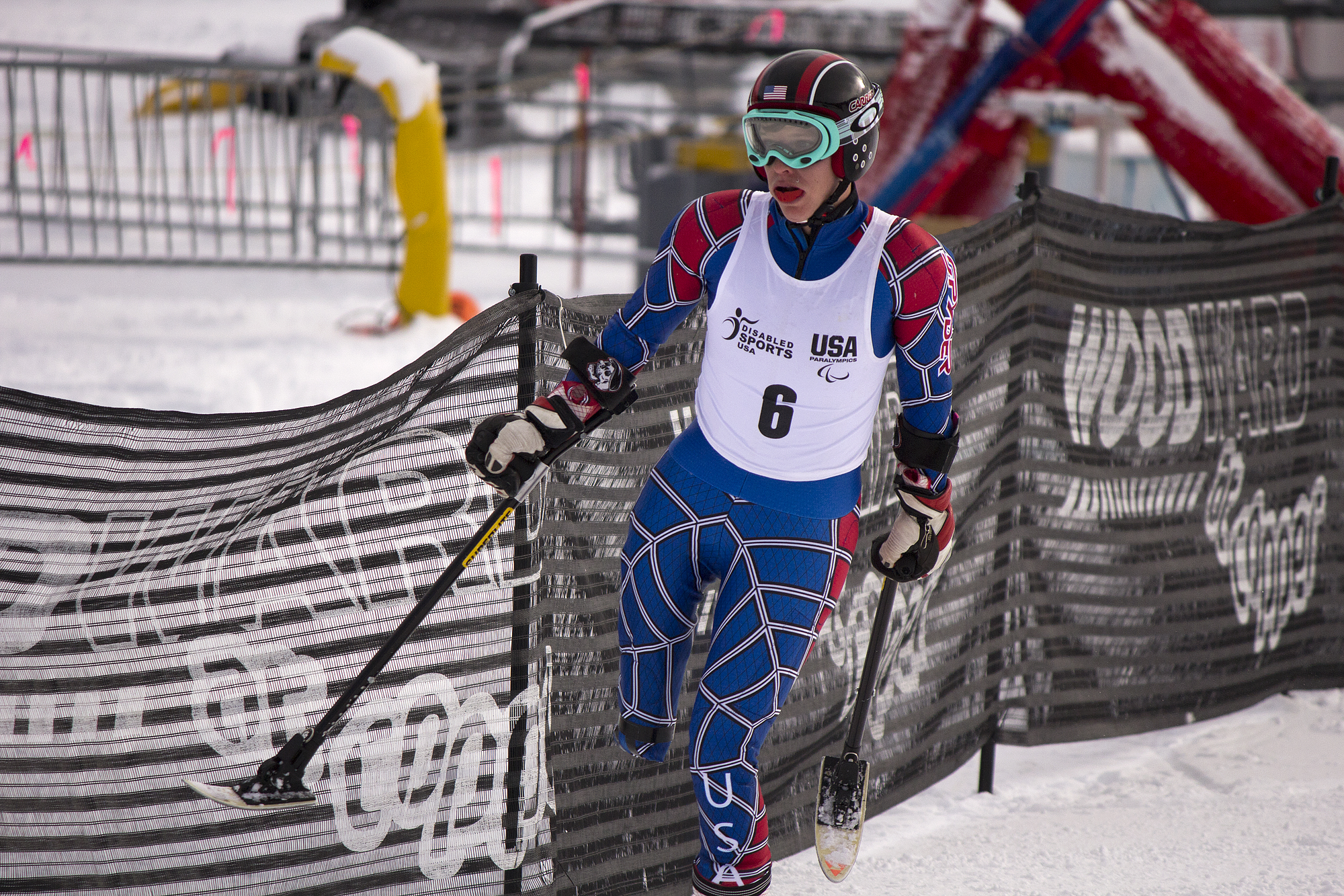 Allison Jones competing in the Super G during the second day of the 2012 IPC Nor Am Cup at Copper Mountain, Colorado.